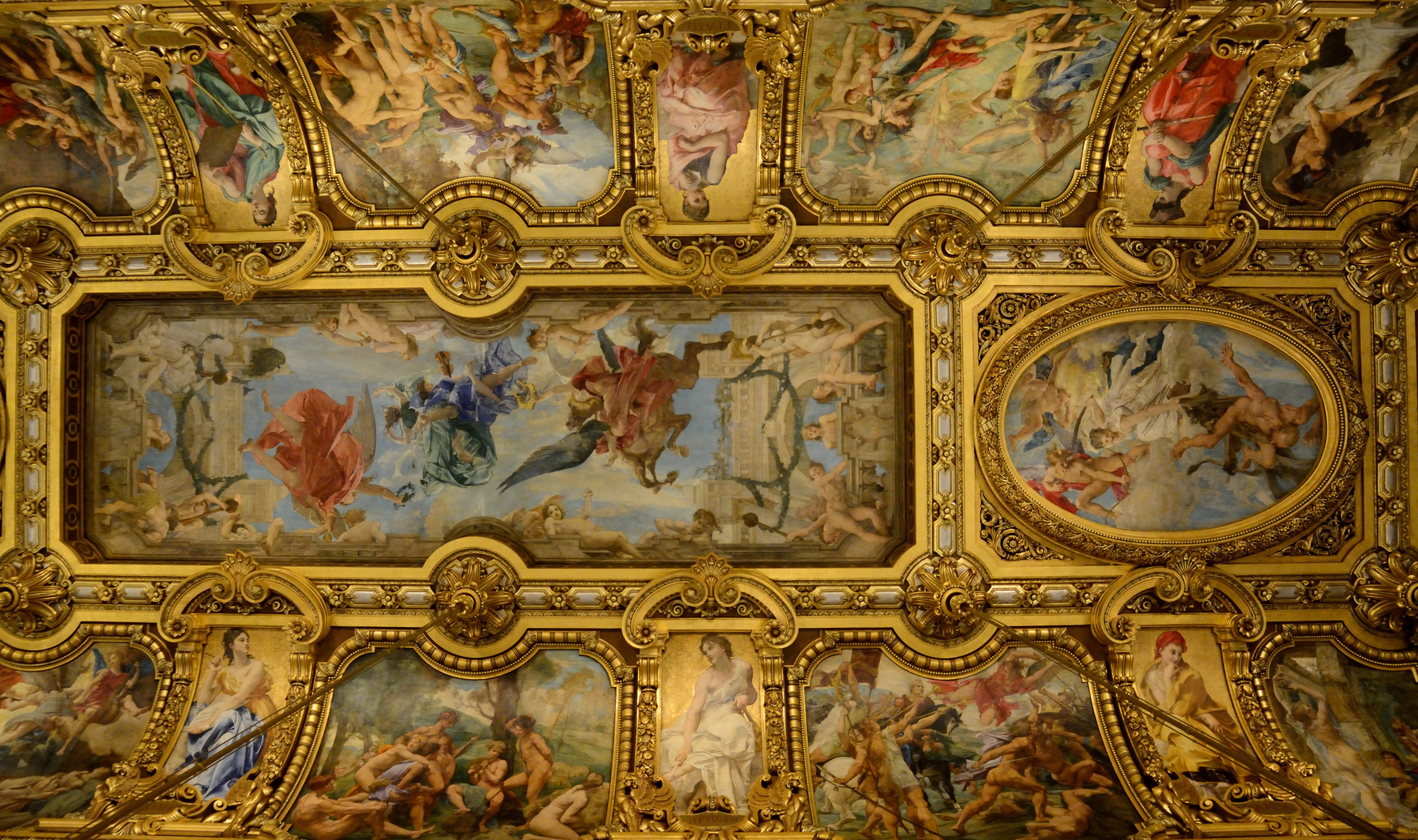 Part of the ceiling of the Grand Foyer at the Opéra Garnier, Paris, showing the paintings of Paul Baudry; the large central rectangular panel is Music, while the large oval panel at the western end is Comedy.